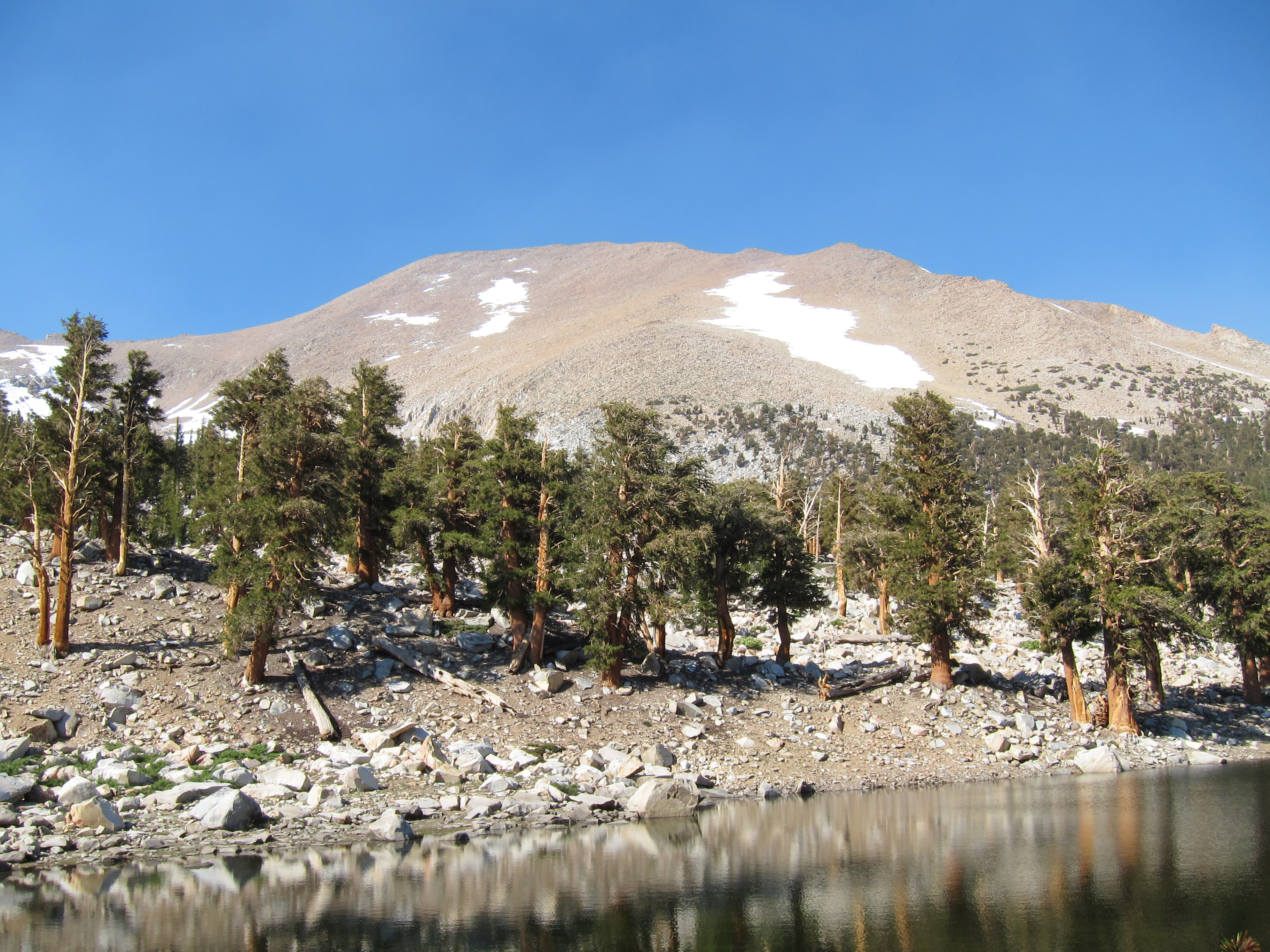 Mount Kaweah in Sequoia National Park, from the High Sierra Trail